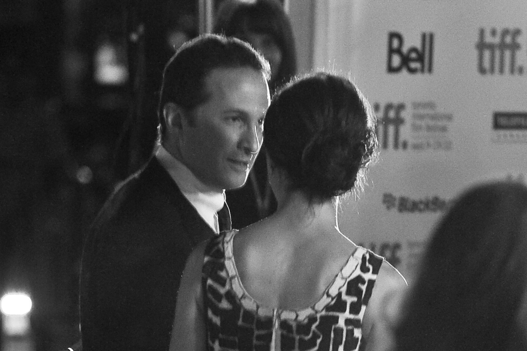 At the premiere of "Black Swan", during the Toronto International Film Festival, 2010.